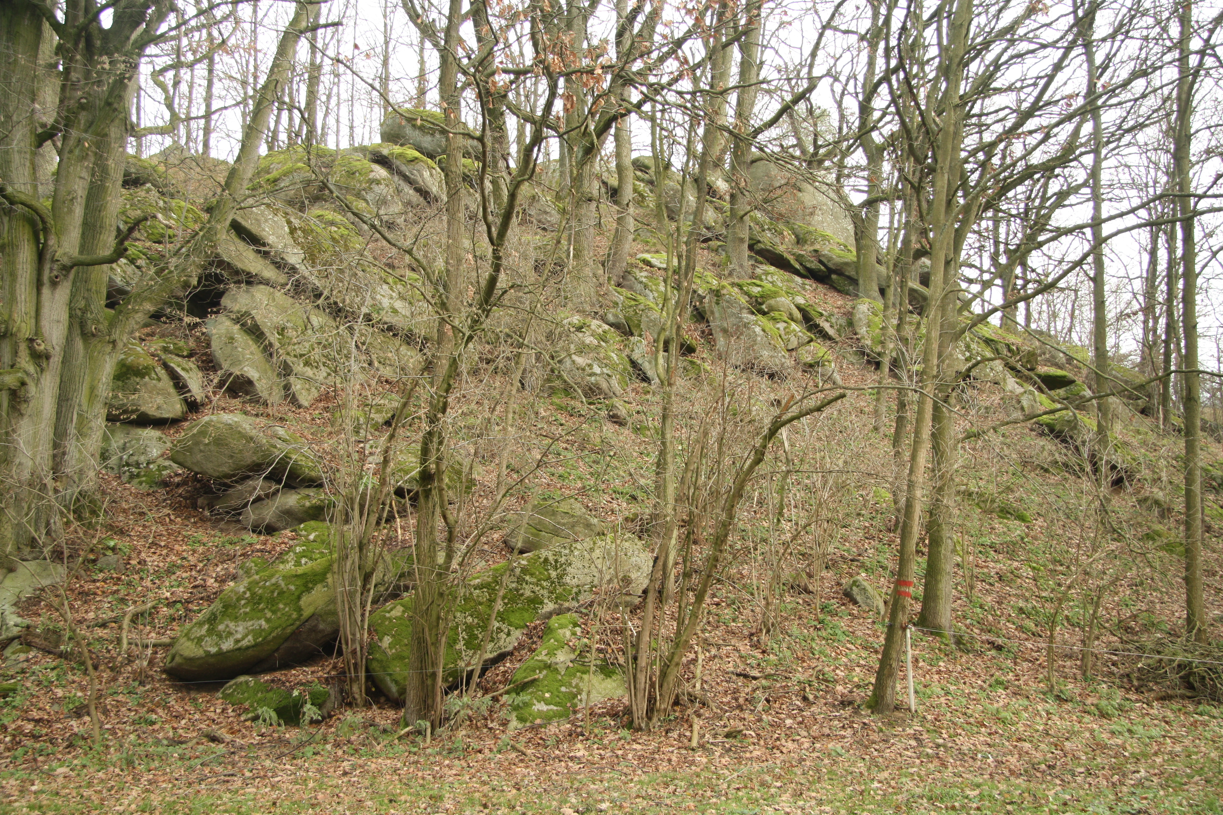 Overview of natural monument Syenitové skály u Pocoucova near Pocoucov, Třebíč, Třebíč District.